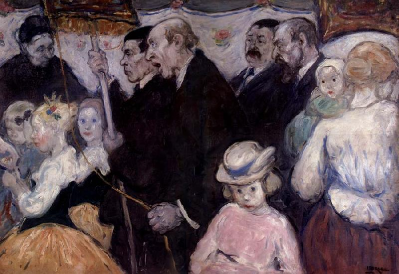 Iso Rae, Rogation Sunday, 1913. Musée du Touquet